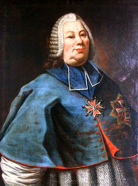 Portrait of Adam Stanisław Grabowski (1698-1766)